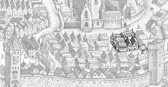 Heilbronn, schoentalerhof-schlehenried-1658 (Quelle Heilbronner Stadtarchiv).jpg